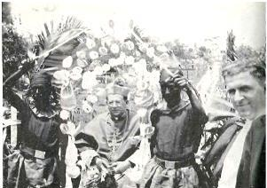 Bishop William A. Rice on confirmation tour in Belize, CA